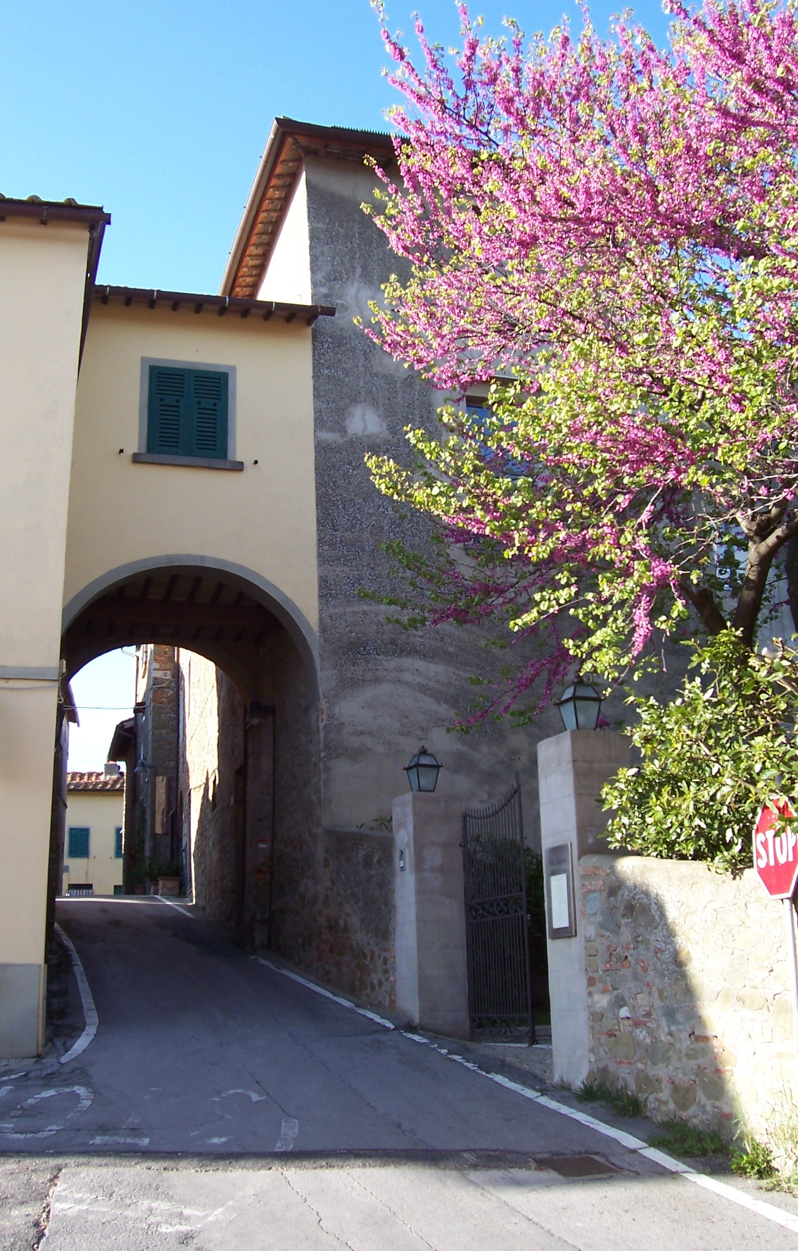 The main wall's entrance to the former Moncioni Castle. Now is part of a house.